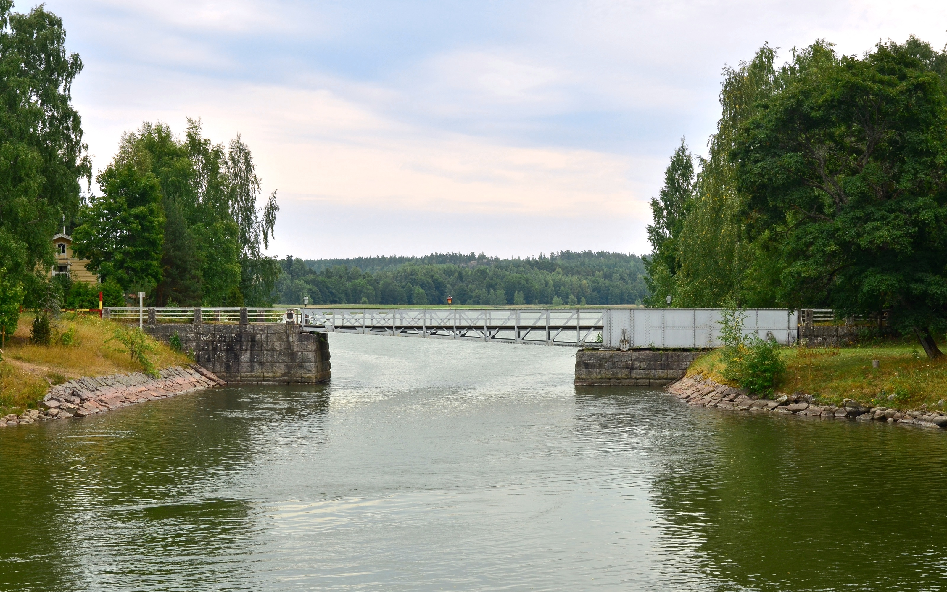 The old swing bridge over Strömma kanal, Kimitoön, Finland.